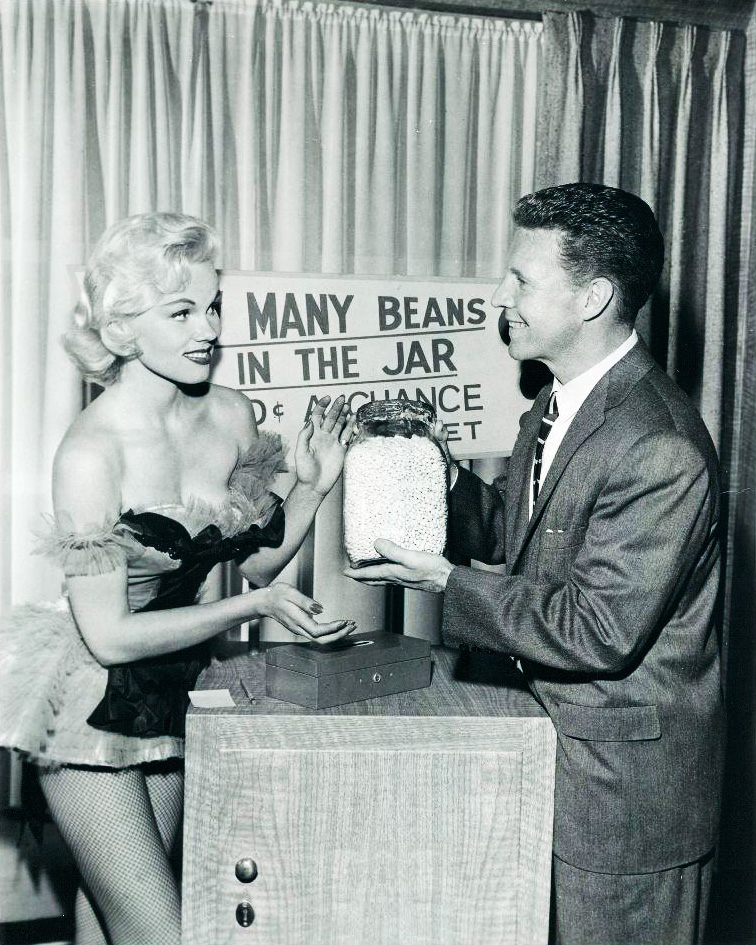 Photo of Lari Laine and Ozzie Nelson from the television program Ozzie and Harriet. The episode is "Ozzie Spills the Beans". Ozzie comes up with a count the beans contest to raise money for his Men's Club. Note the episode aired in November 1958 and that Laine was Playboy Playmate of the Month in May 1958.